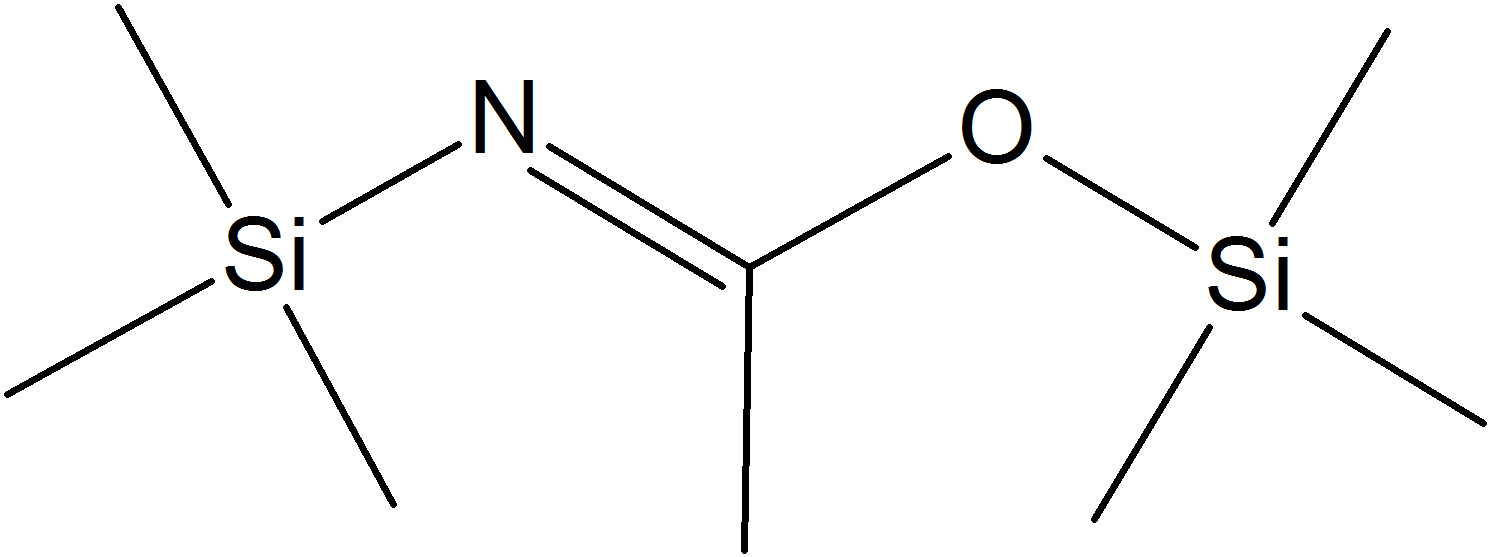 Structure of bis(trimethylsilyl)acetamide